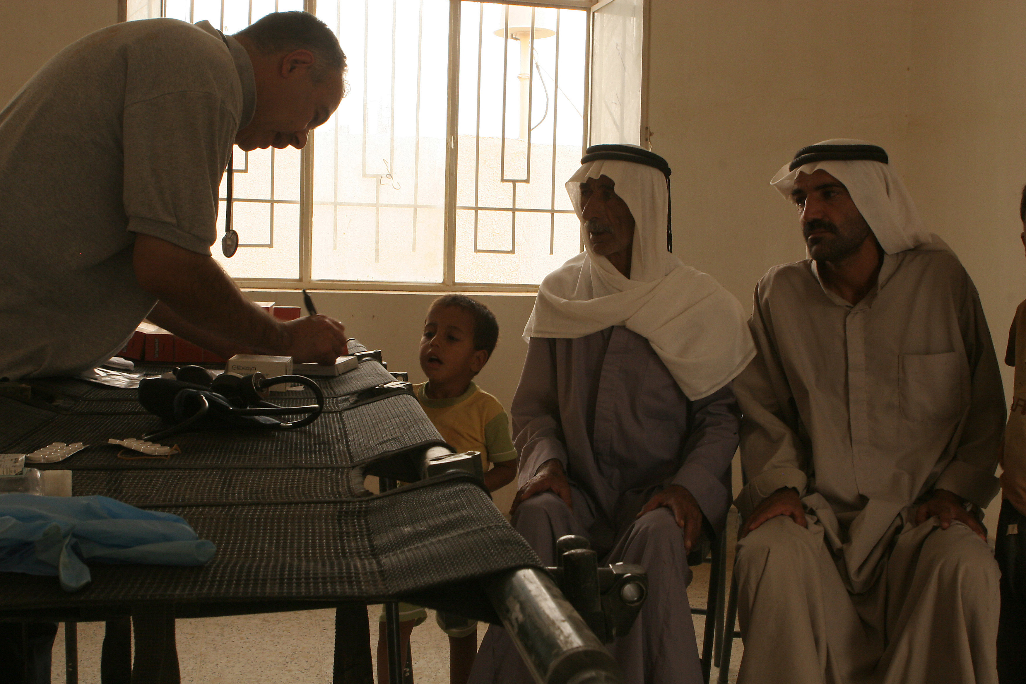 KARMAH, Iraq- An Iraqi doctor prescribes medication during a combined medical engagement Sept. 15. The CME was held by Weapons Company, Task Force 1st Battalion, 3rd Marine Regiment, Regimental Combat Team 1, in the West Karmah region.